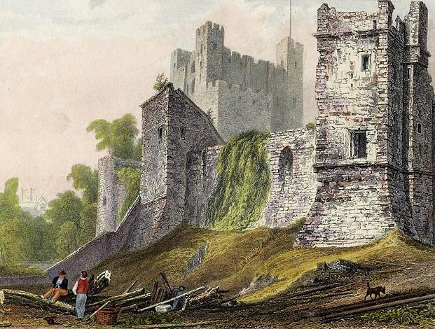 Rochester Castle engraved by J. LeKeux after a picture by W.H.Bartlett in 1735.